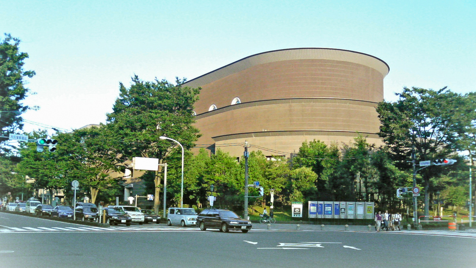 Tokorozawa Muse ･Ark Hall exterior.